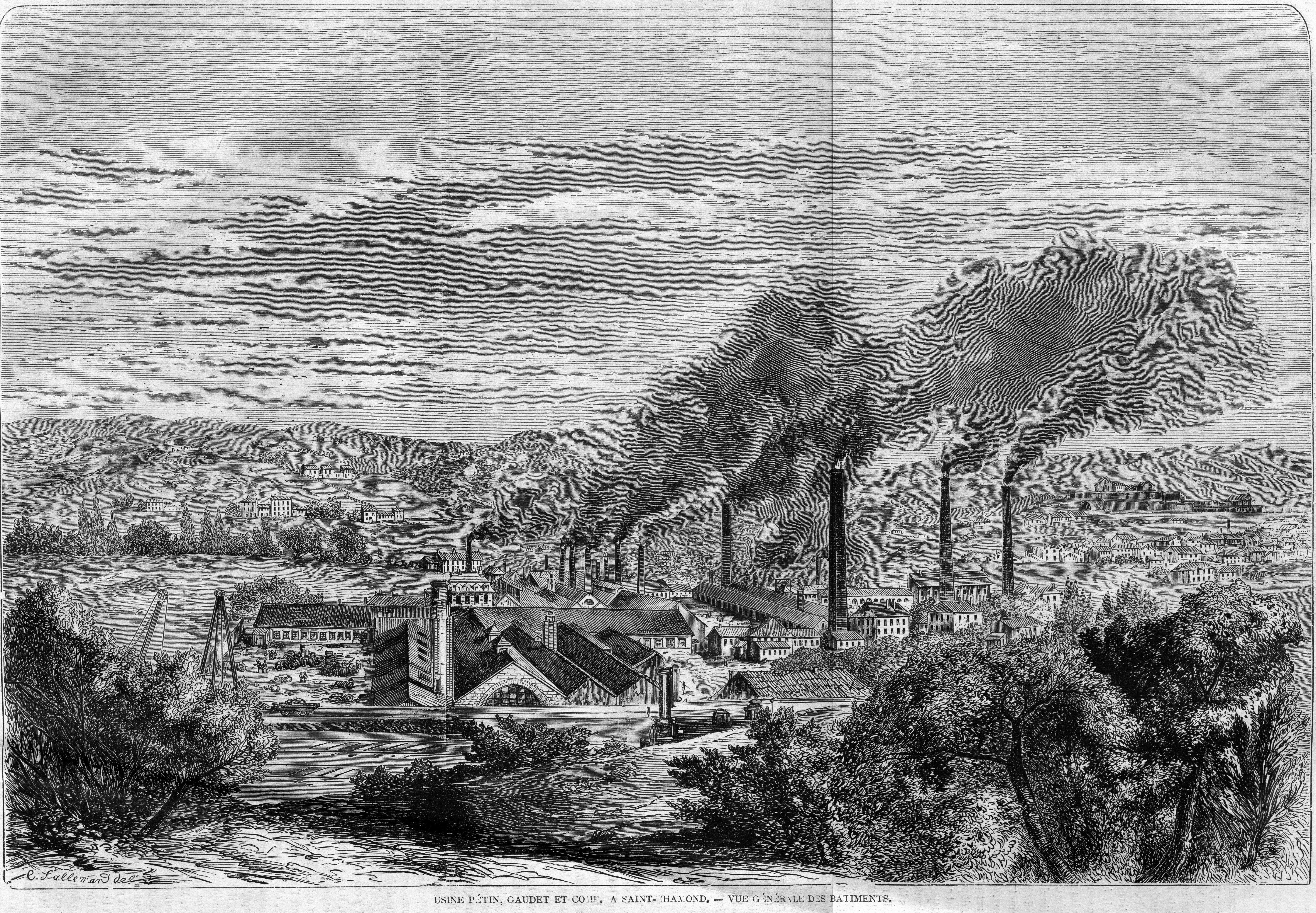 L'Illustration 1862 gravure usine Pétin - Gaudet et comp. à Saint-Chamond